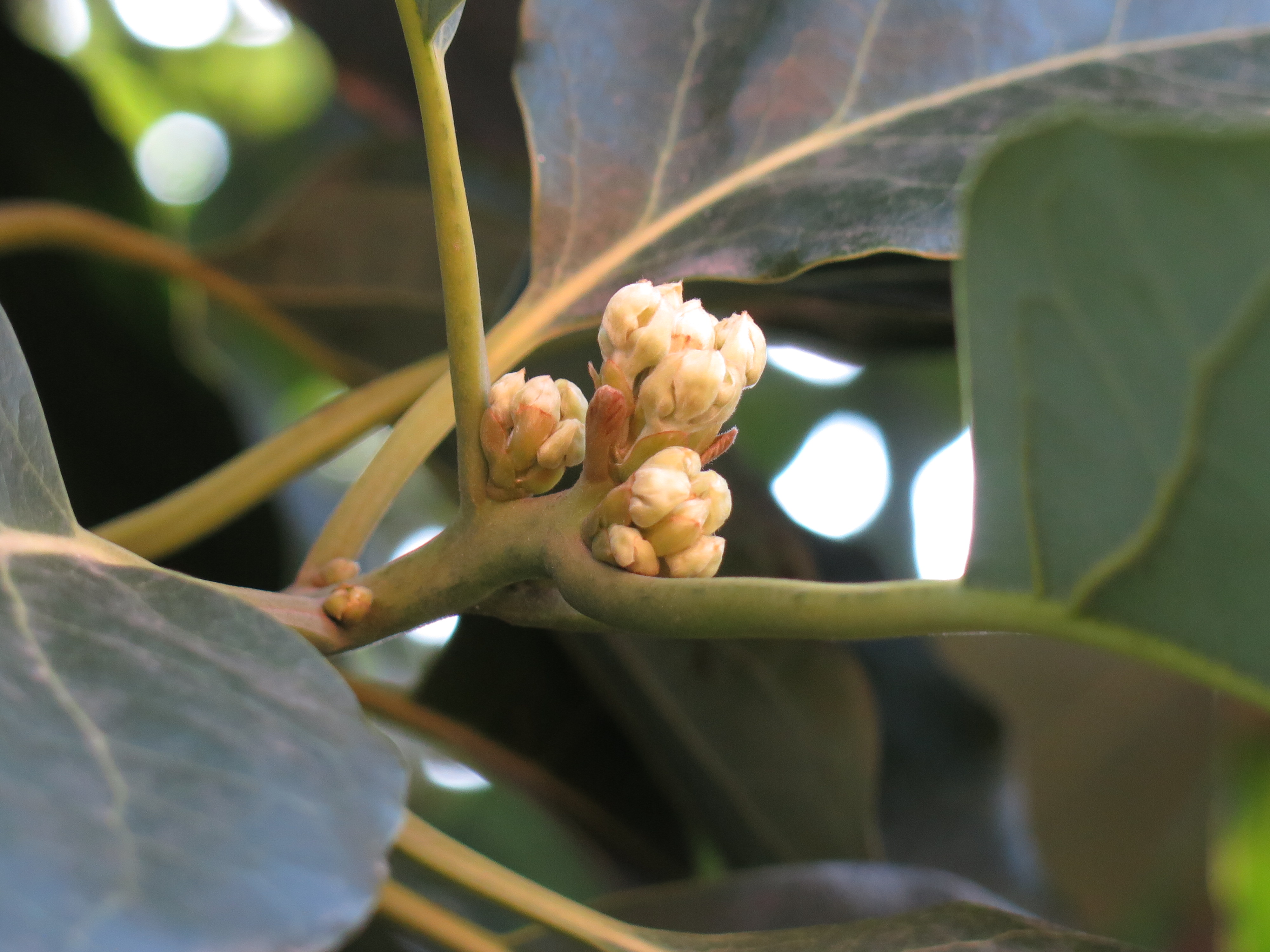 Buds of avocado